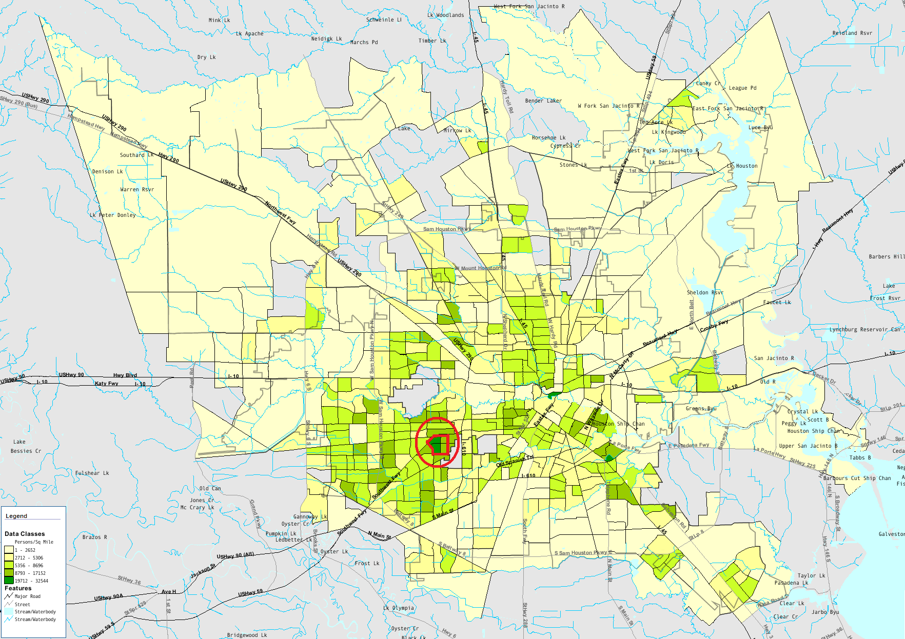 Map of Houston highlighting Gulfton